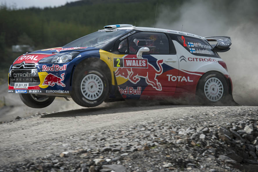 Wales Rally Great Britain 2012 Citroen DS3 WRC,Citroen Total WRT,Citroen Total World Rally Team,Free Practice,Freies Training,Jarmo Lehtinen,Mikko Hirvonen,Motorsport,Rally,Rallye,Shakedown,WRC,Wales Rally GB,Walters Arena